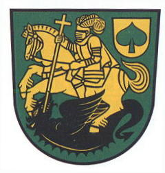 Coat of arms of Rittersdorf